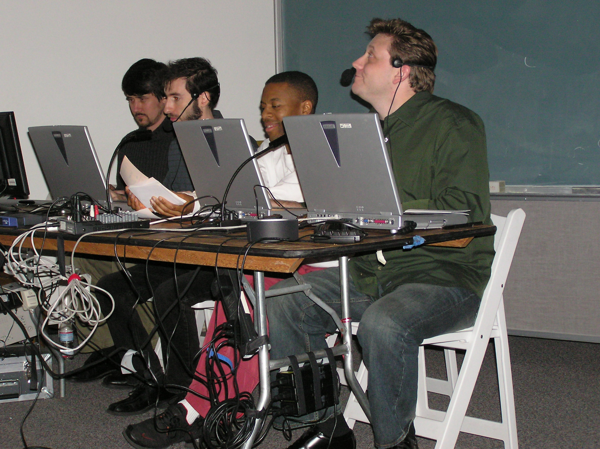 The ILL Clan, a machinima group, presents its comedy talk show Tra5hTa1k with ILL Will in front of a live audience at Stanford University in 2005.